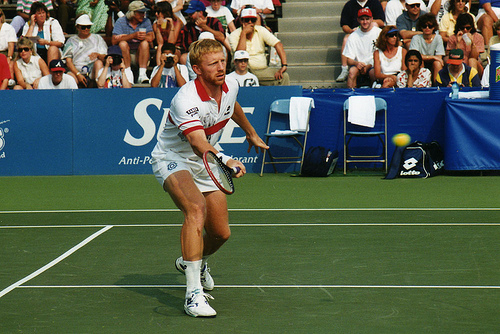 1994 Thriftway Championships Cincinnati, Ohio Film Scan Camera Canon AE1